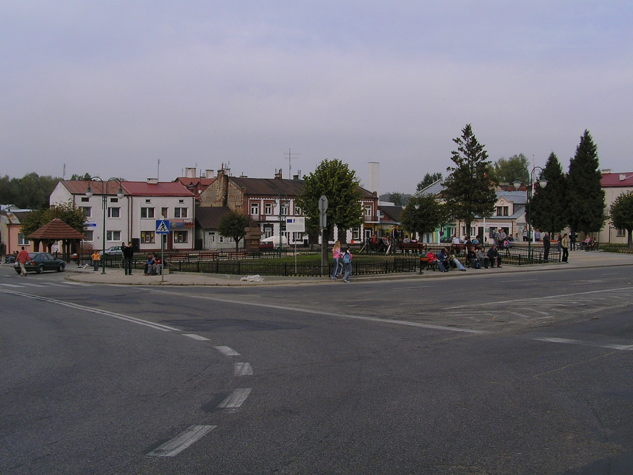 autor: Yarek shalom 21:14, 12 October 2006 (UTC)yarek shalom